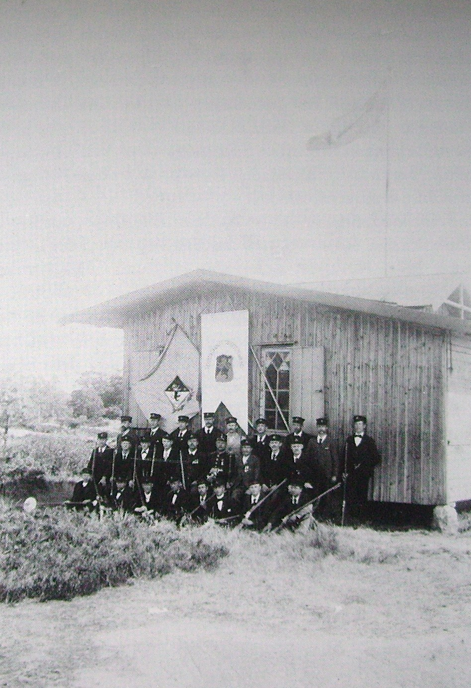 Picture of shooting pavillion at Hjortmossen in Trollhättan 1889